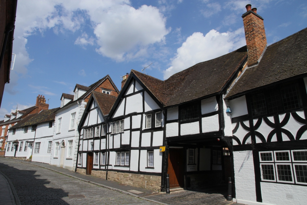 Mill Street, Warwick, England. In the centre of the picture is Cobb Cottage, a timber-framed gable-fronted 17th-century house